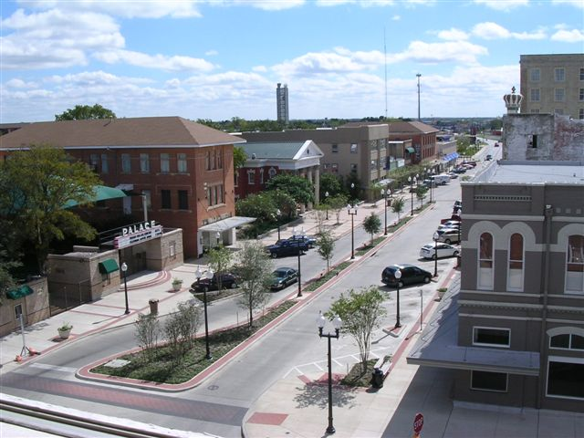 Main Street in Downtown Bryan, Texas